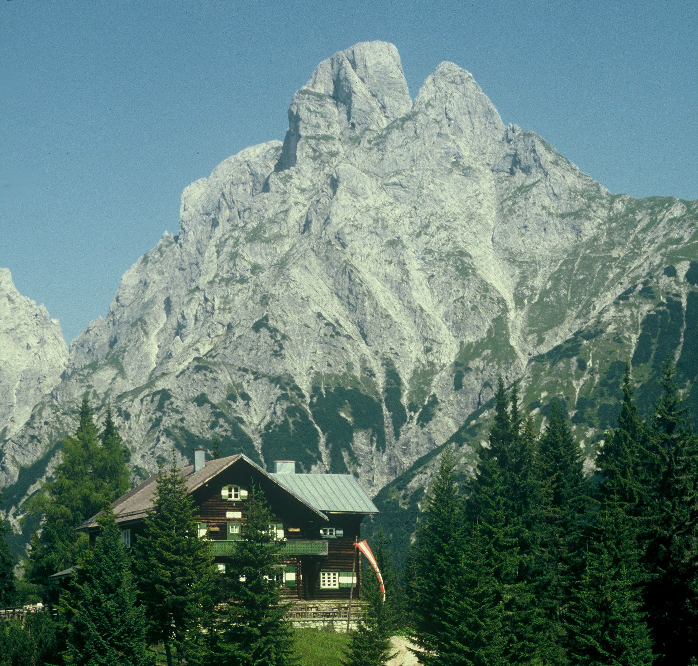 Admonter Reichenstein with Mödlinger Hütte